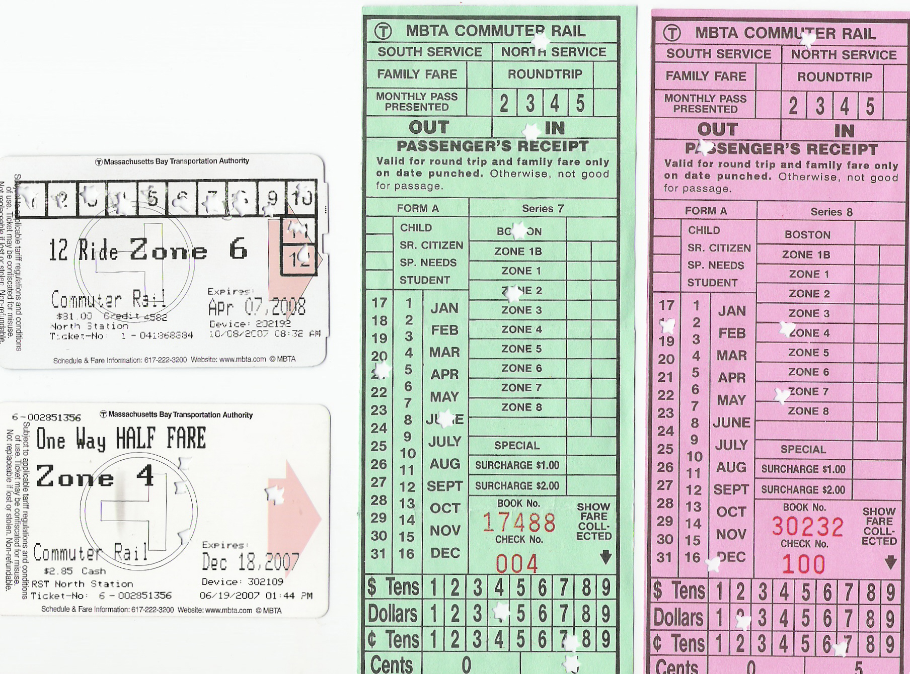 Two MBTA Commuter Rail tickets (on Charlietickets) and two paper receipts. The tickets are a 12-ride Zone 6 and a single-ride half-fare Zone 4 ticket, while the receipts are for a Zone 2 fare and a Zone 4 to Zone 7 interzone fare.